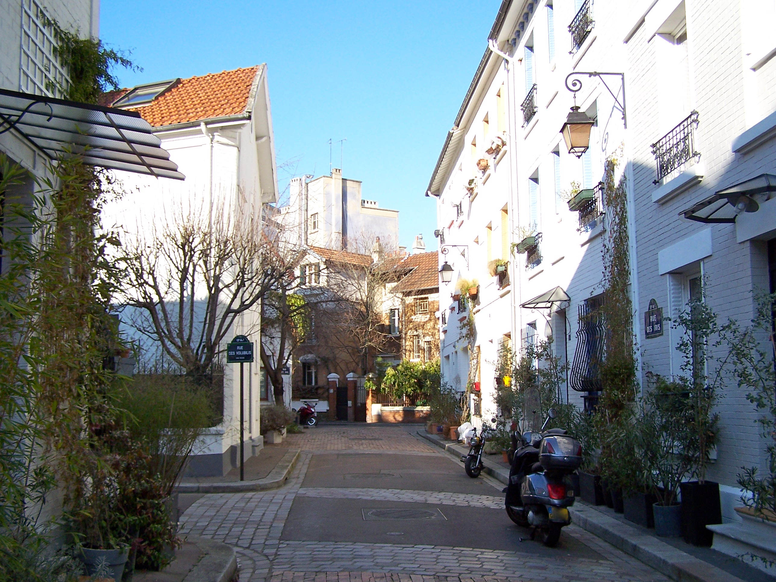 View of the rue des Iris in the Cité florale in Paris